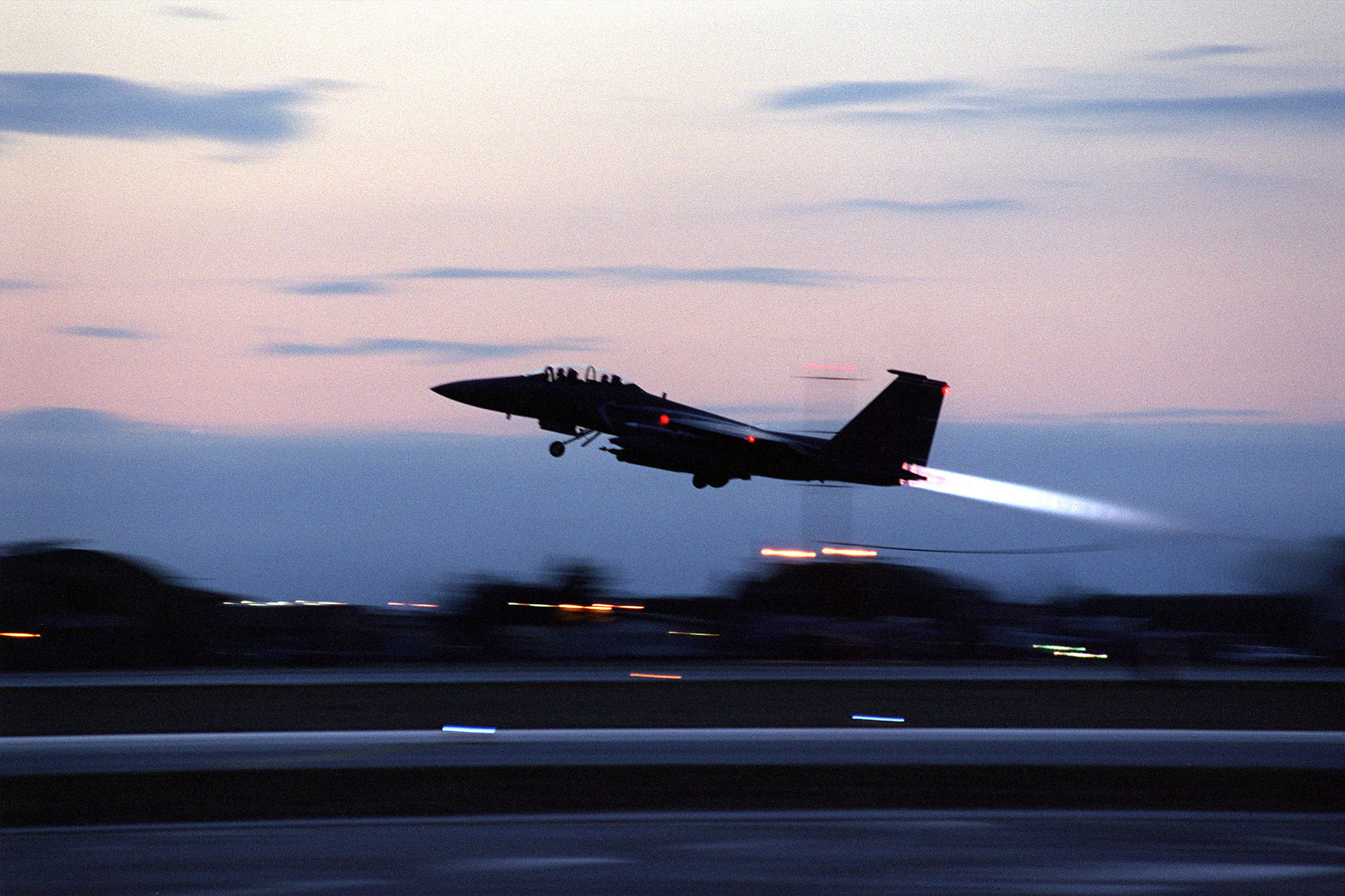 A U.S. Air Force F-15E Strike Eagle takes off from Aviano Air Base, Italy, for an air strike mission in support of NATO Operation Allied Force on March 28, 1999. Operation Allied Force is the air operation against targets in the Federal Republic of Yugoslavia. DoD photo by Senior Airman Mitch Fuqua, U.S. Air Force. (Released)